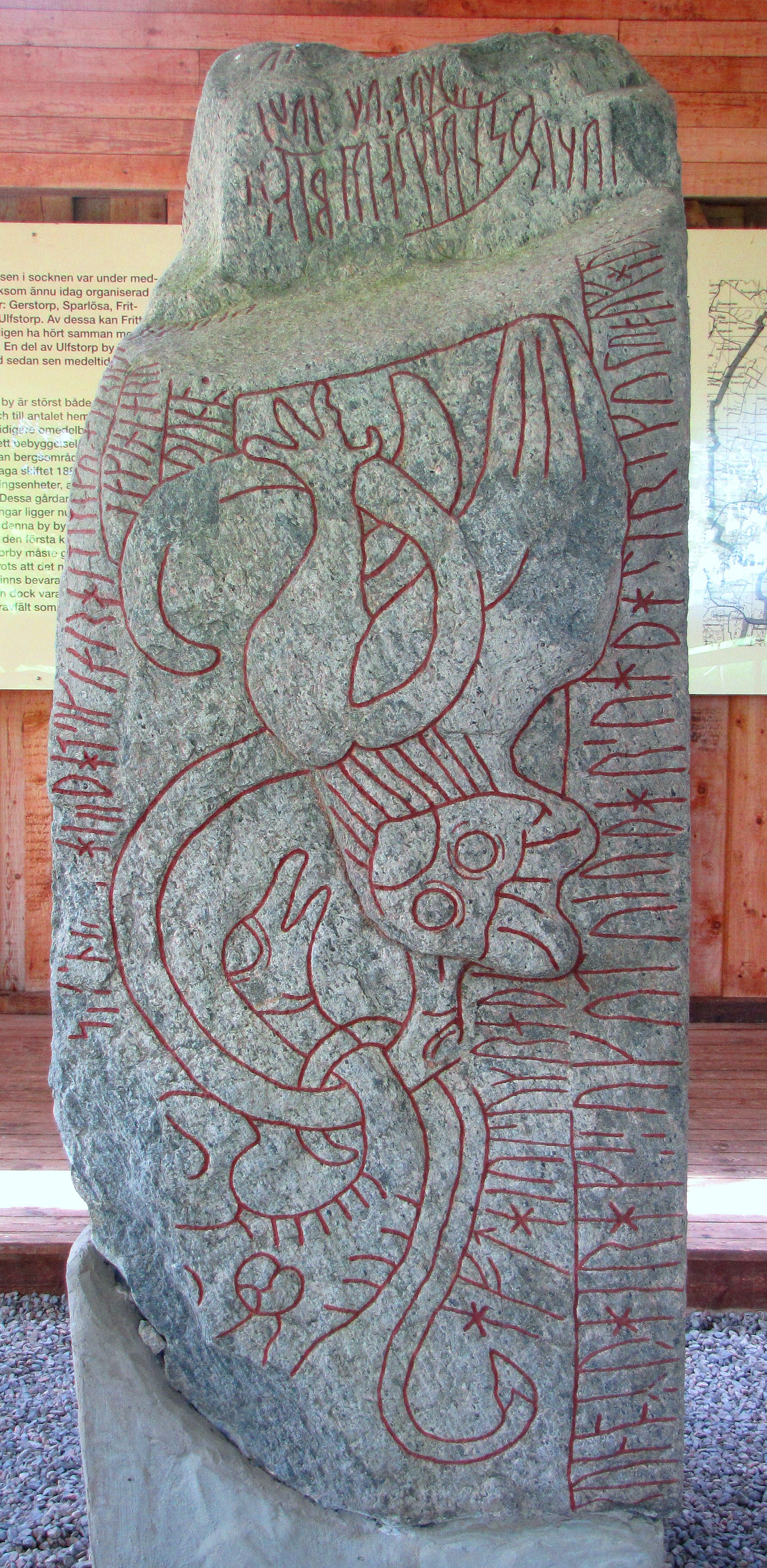 One of the four carved sides of the Sparlösa rune stone.